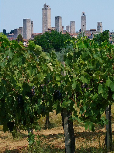 San Gimignano picture taken by user:Idéfix, july 2003